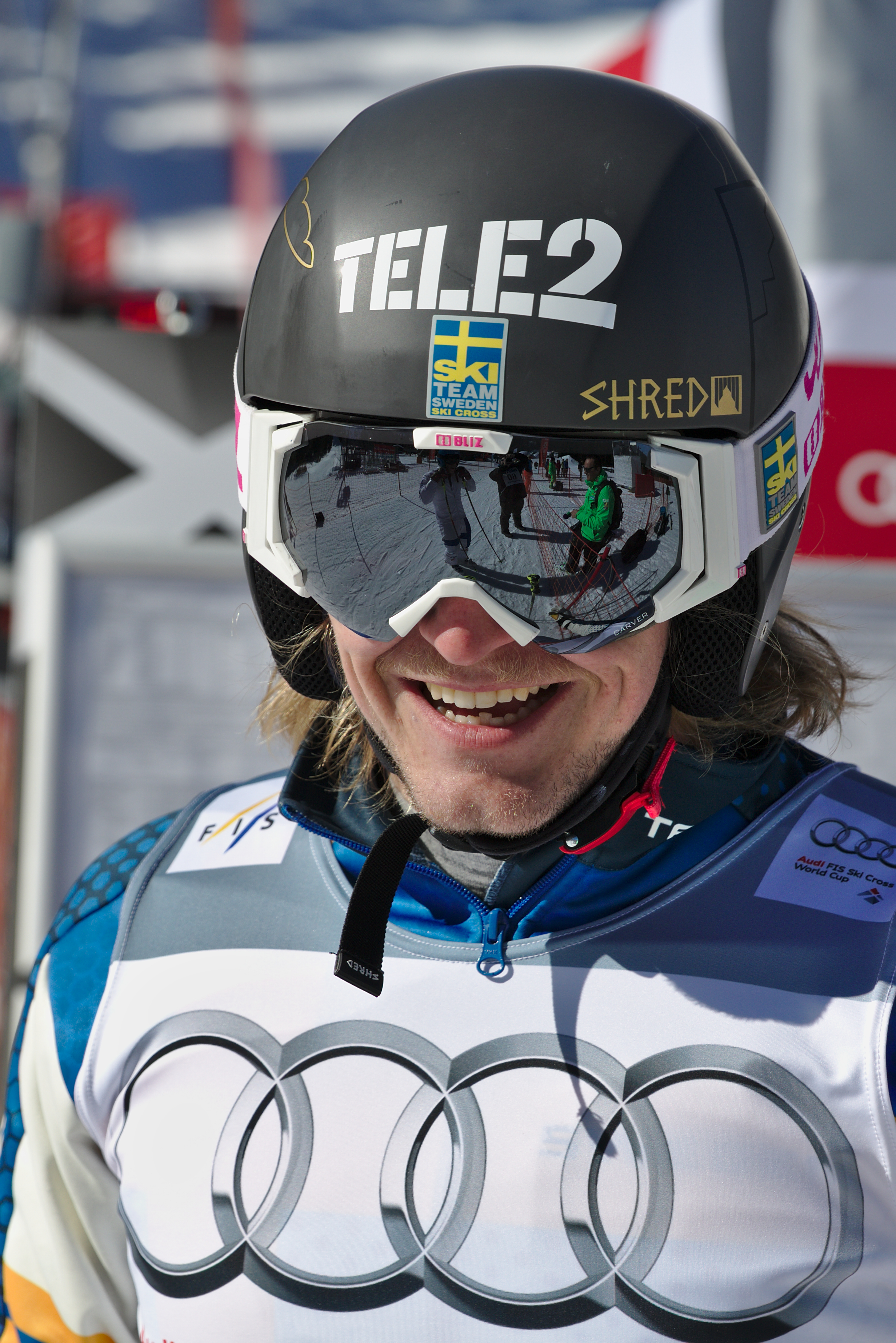 FIS Ski Cross World Cup 2015 - Megève - 20150313 - Viktor Andersson